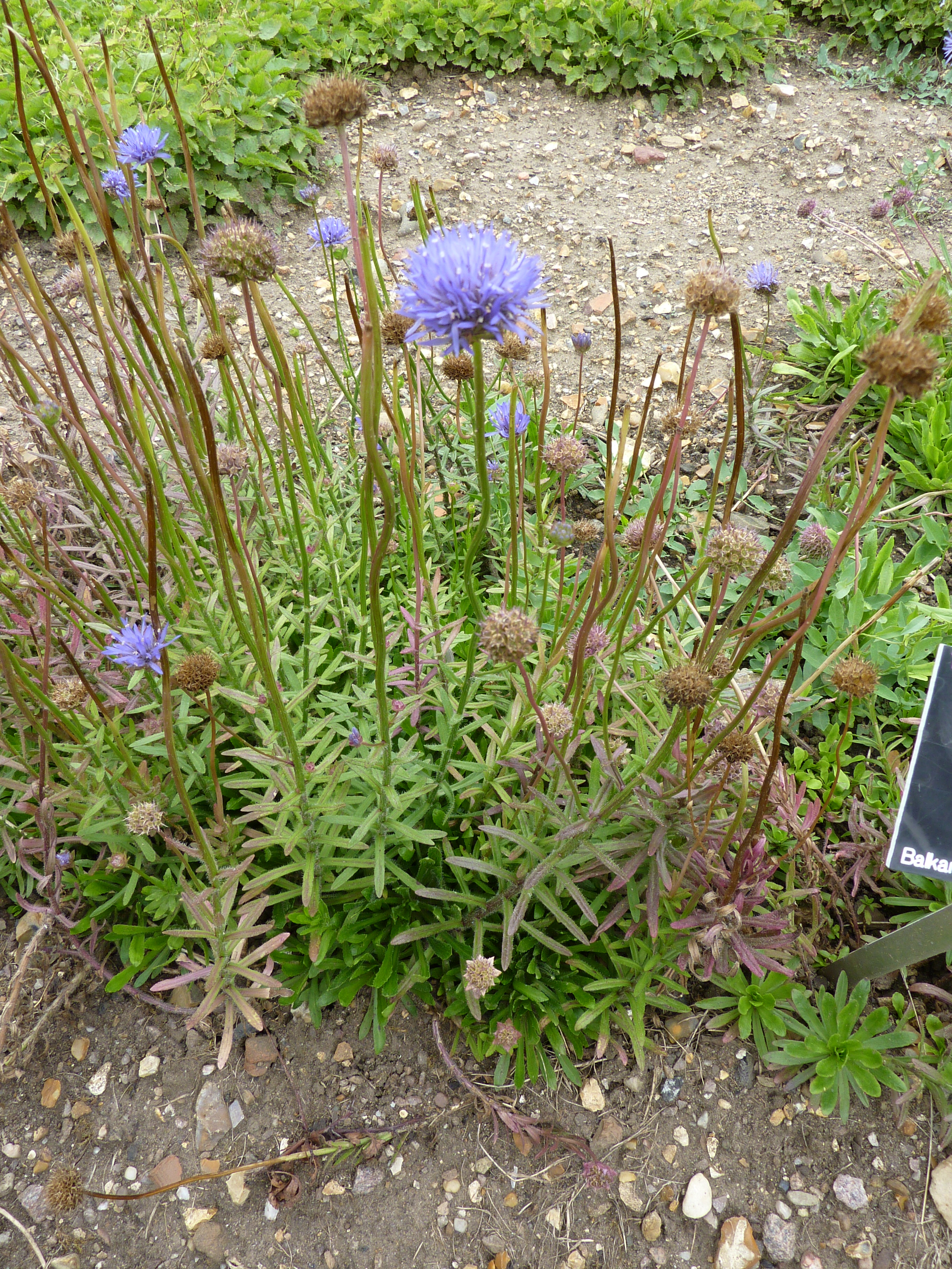 Jasione heldreichii, Cambridge University Botanic Garden